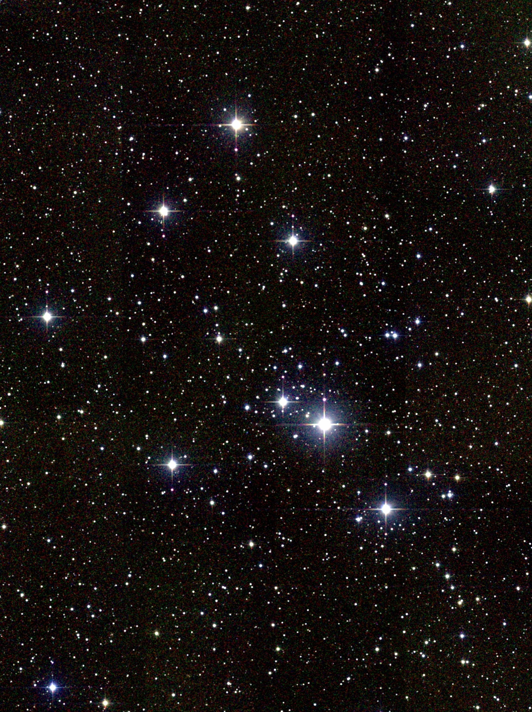 The open cluster Messier 41